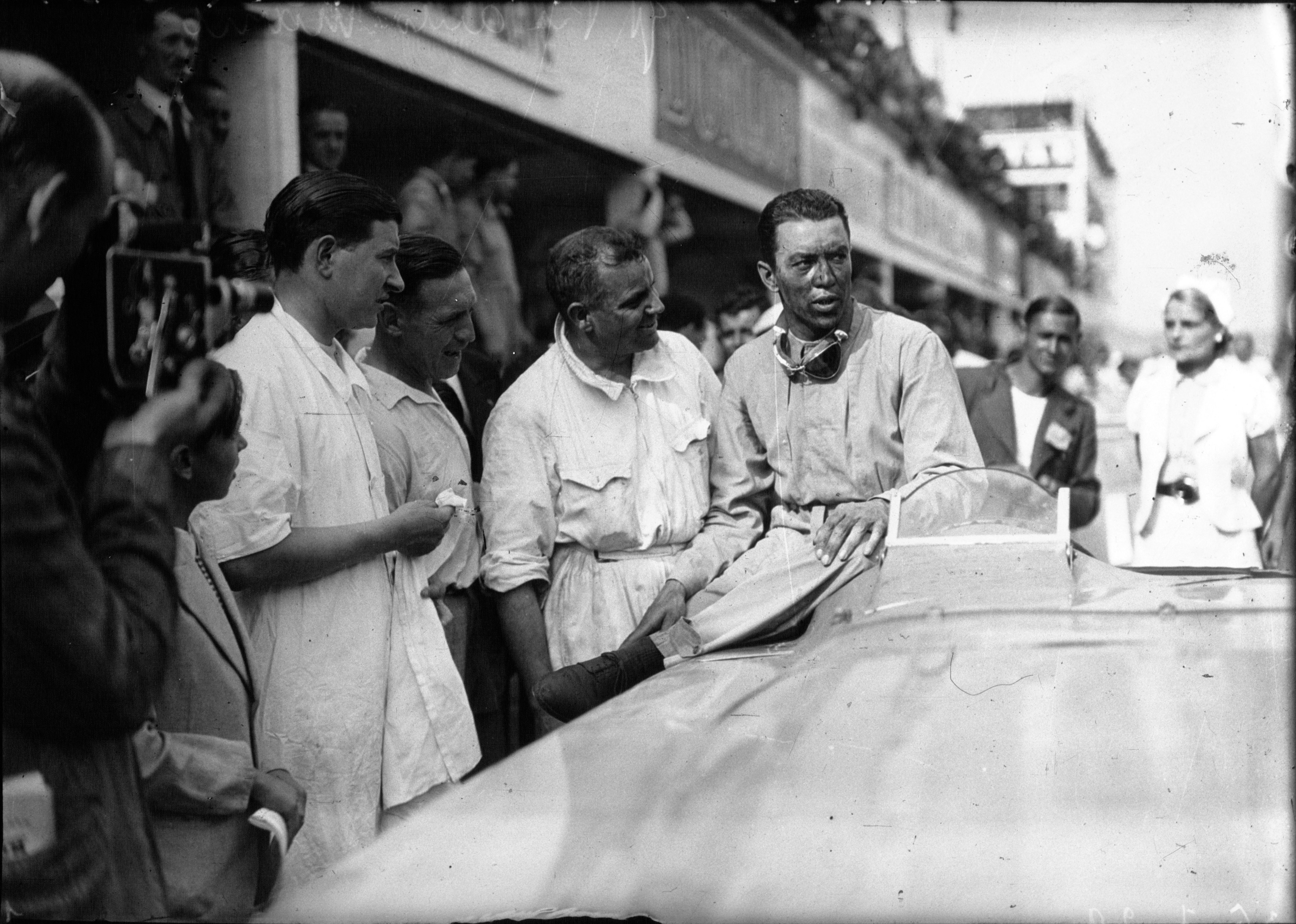 Jean-Pierre Wimille at the 1936 Grand Prix de la Marne